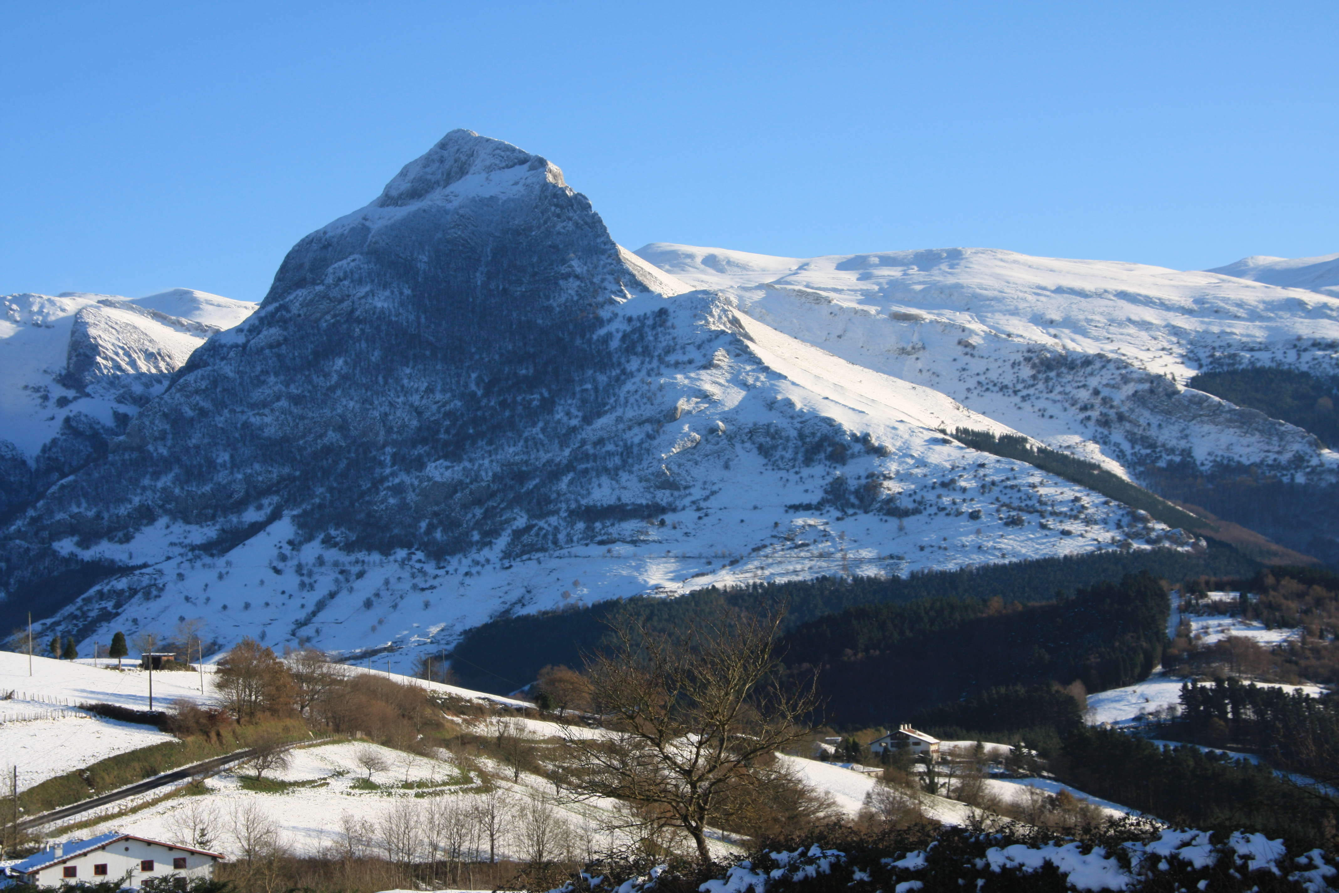 Larrunarri or Txindoki mountain from Gaintza. Gipuzkoa, Basque Country.